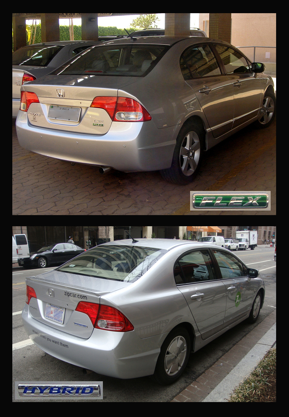 Two clean vehicle versions of the Honda Civic. On top a Brazilian flexible-fuel vehicle and below an US gasoline-electric hybrid. Both pics already uploaded on Wiki Commons (see below). Photo arrangement with Photoshop